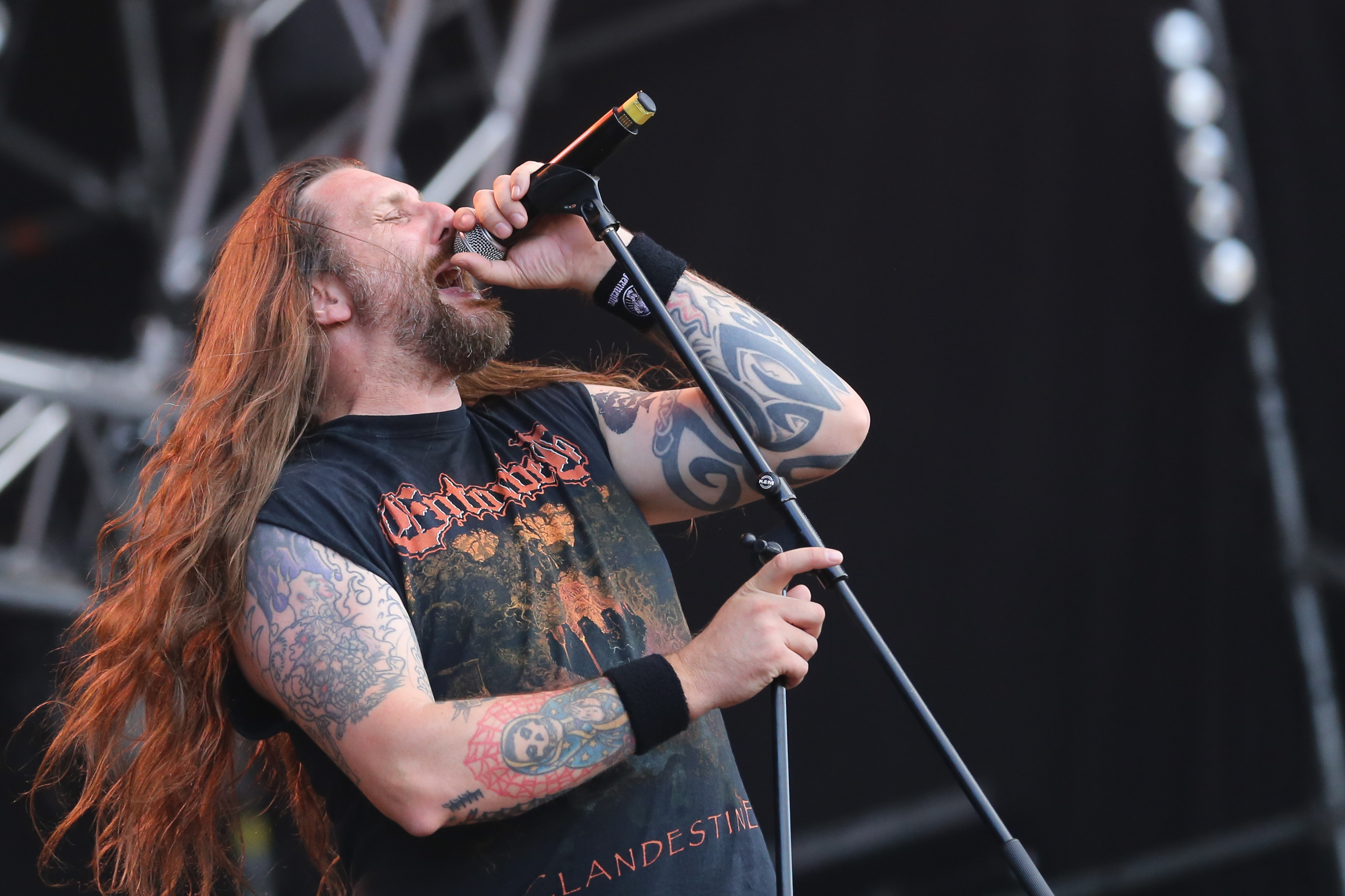 Przystanek Woodstock in 2017.